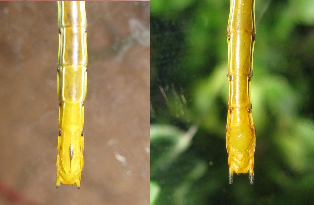 Ventral abdomens of female (left) and male (right) Nymph of Oreophoetes peruana